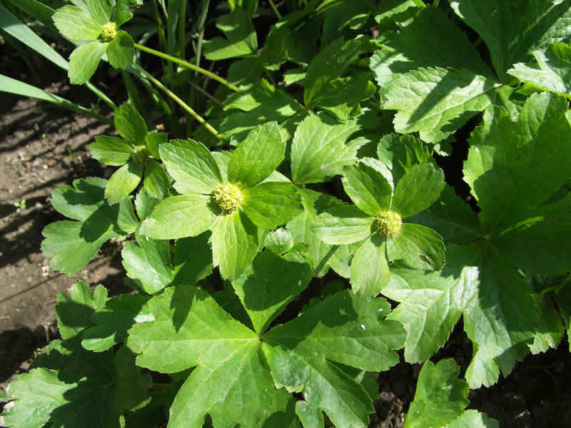 Hacquetia epipactis in Cieszyn